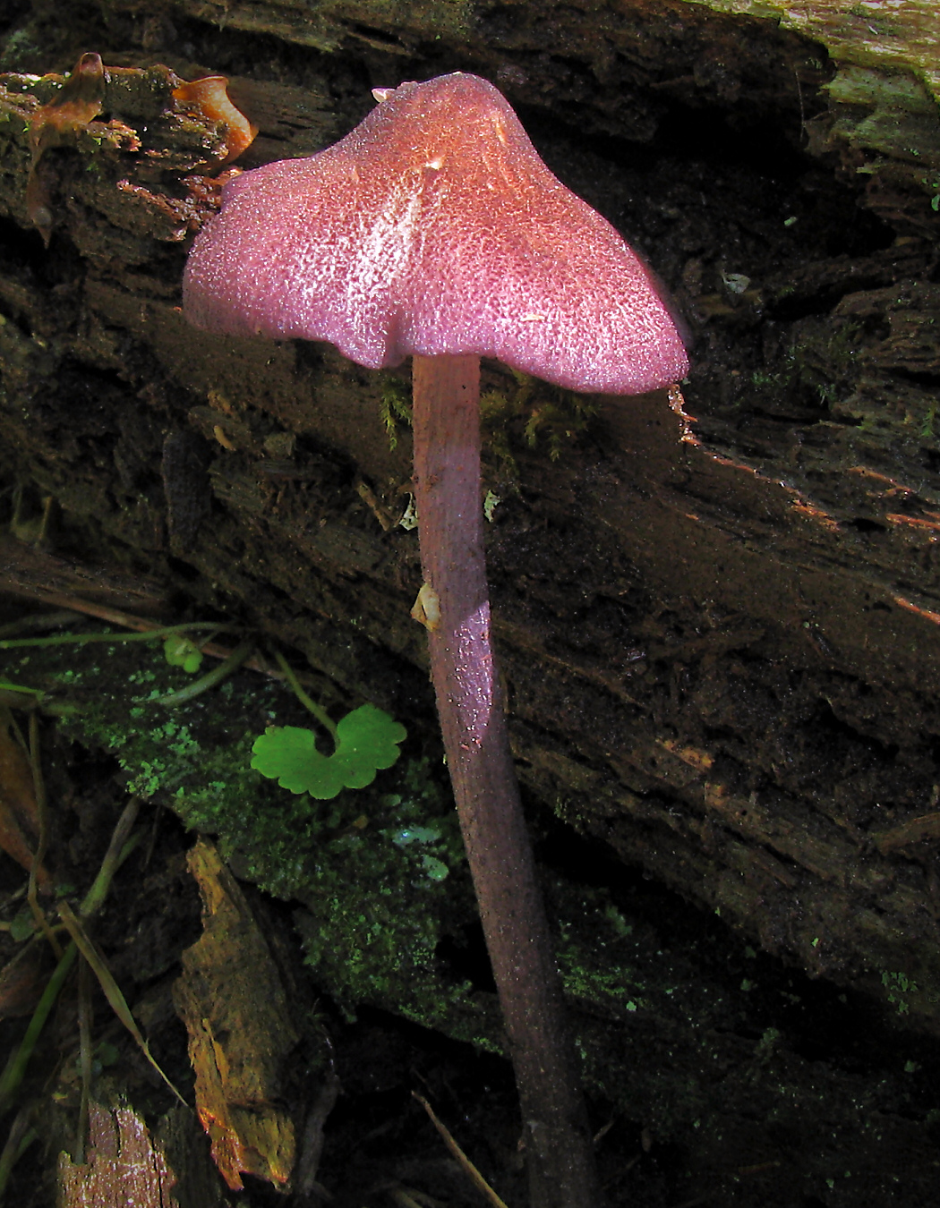 Entoloma allochroum Location: North Bend State Park, West Virginia, USA For more information about this, see the observation page at Mushroom Observer.